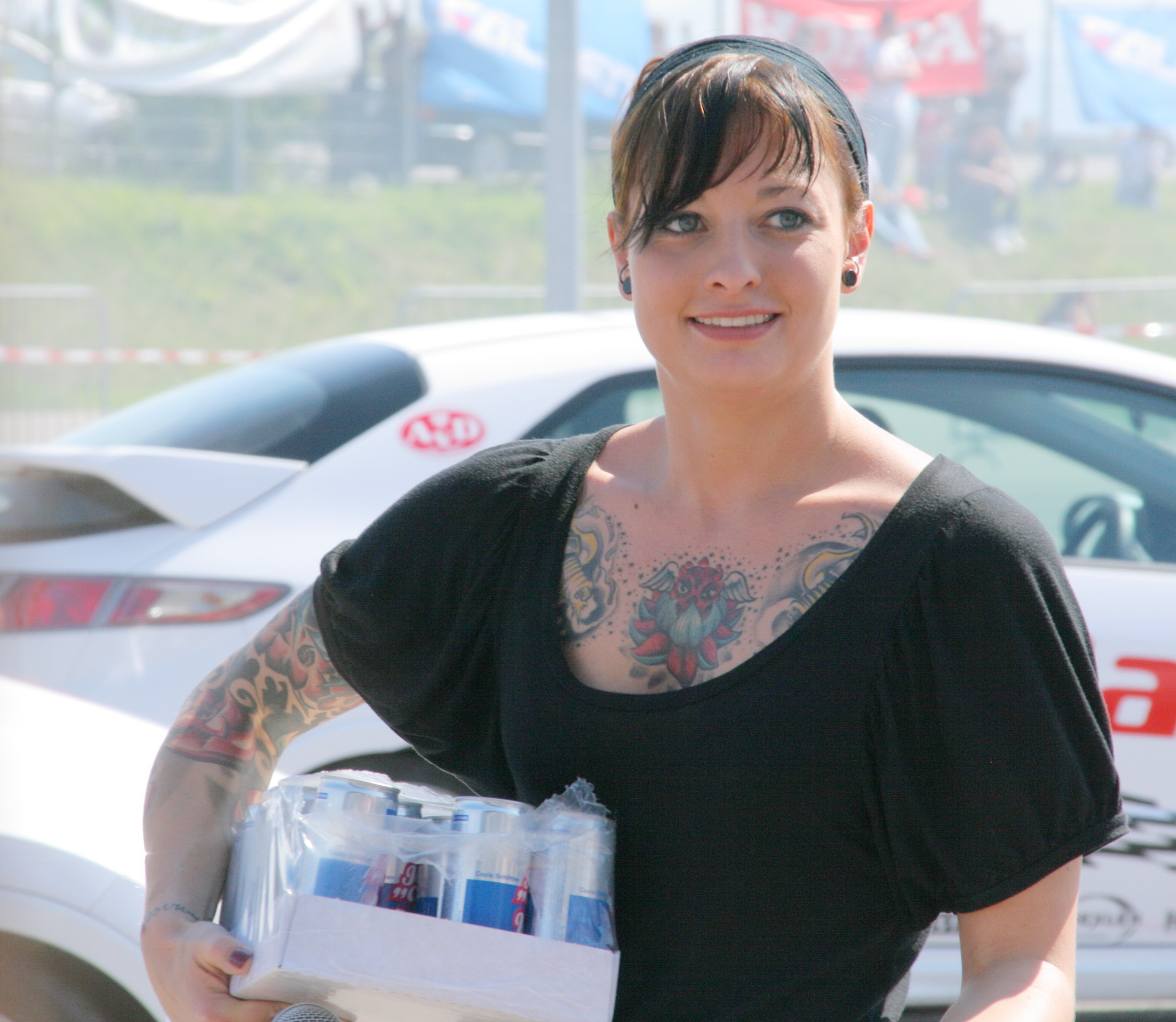 Lina van de Mars ath the Tuning World Bodensee 2008